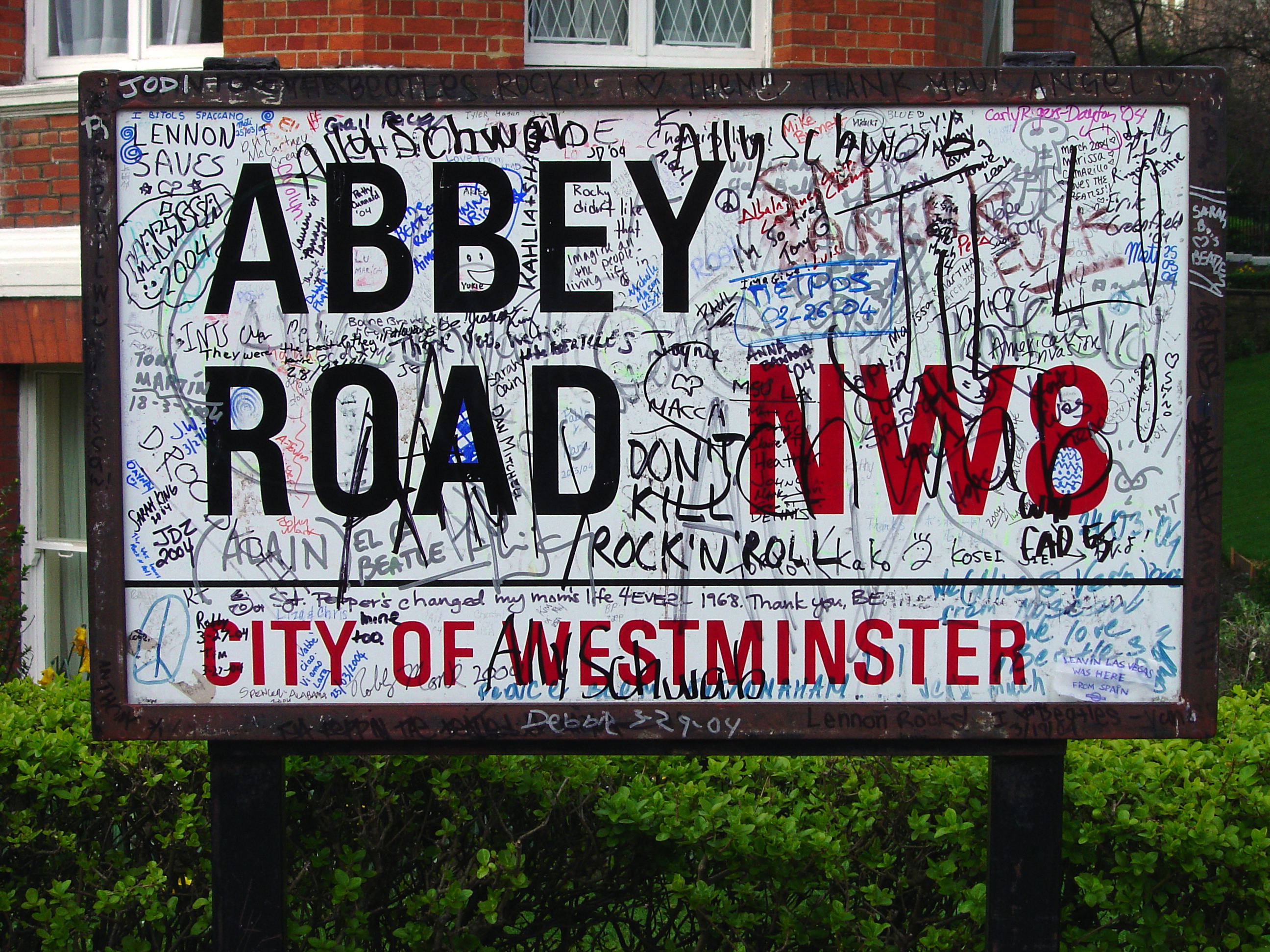 Abbey Road Sign, 2004